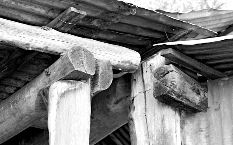 Detail of shed built using ad hoc 'bush carpentry' methods, Maldon, NSW, Australia.